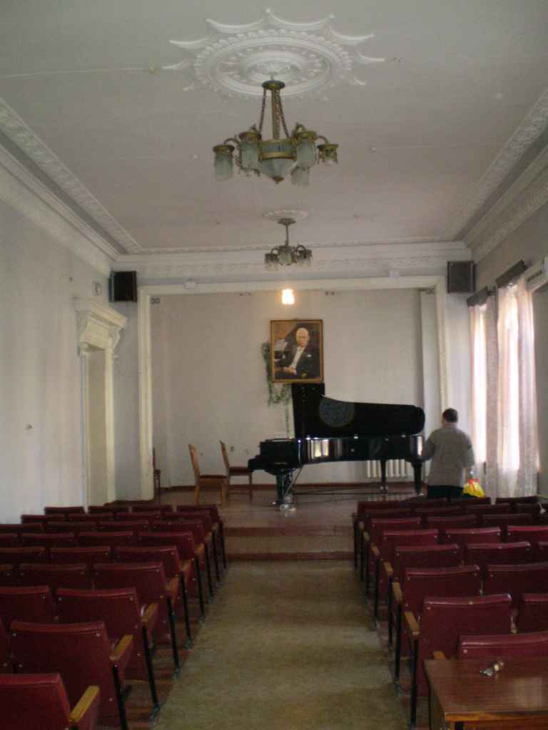 Conservatoire in Donetsk, concert hall